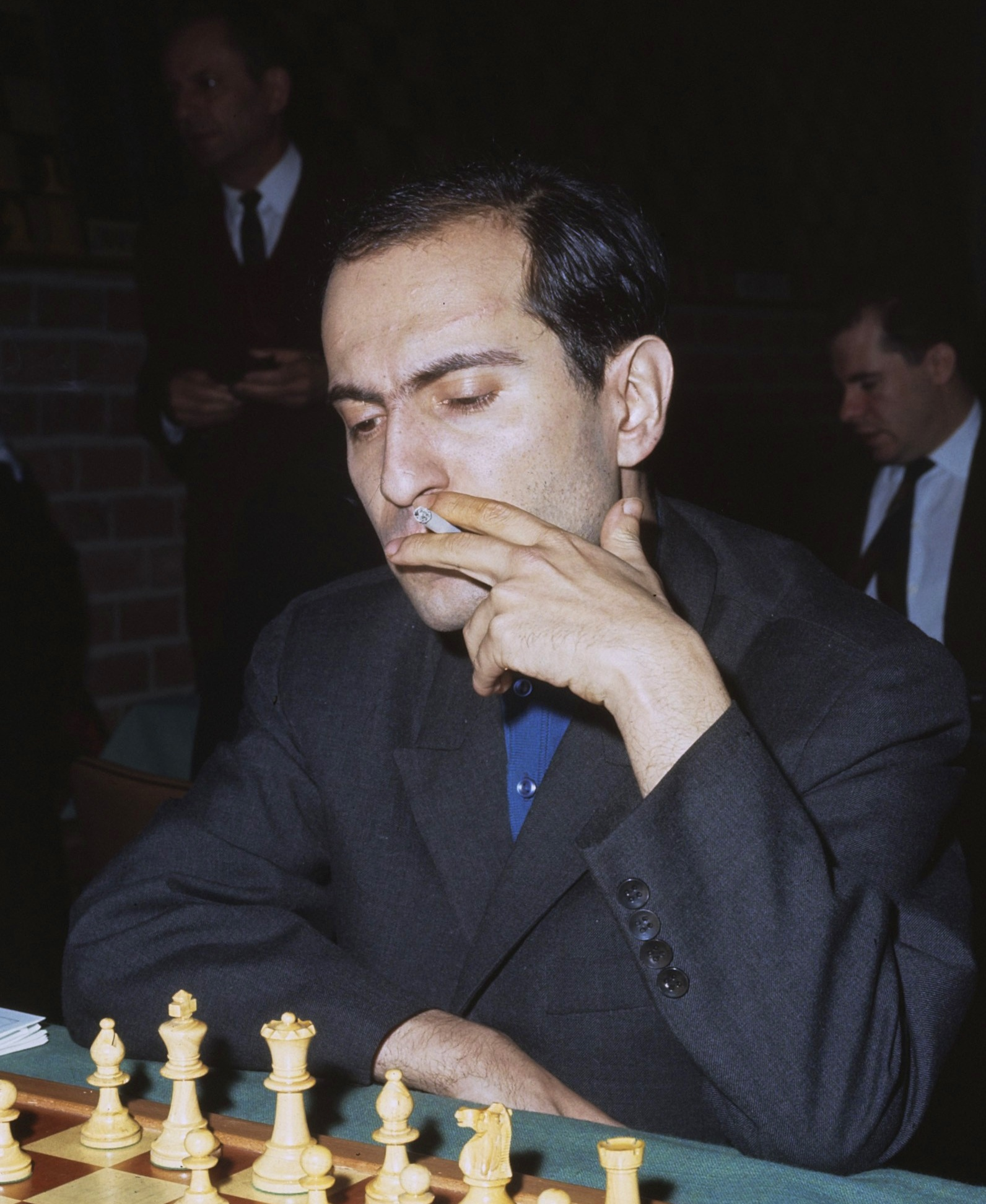 Hoogovenschaaktoernooi te Beverwijk; Tal, USSR